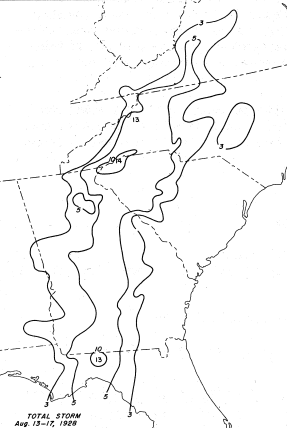 Rainfall totals in the United States East Coast from Hurricane Two of the 1928 Atlantic hurricane season.